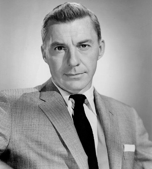 Actress David Wayne